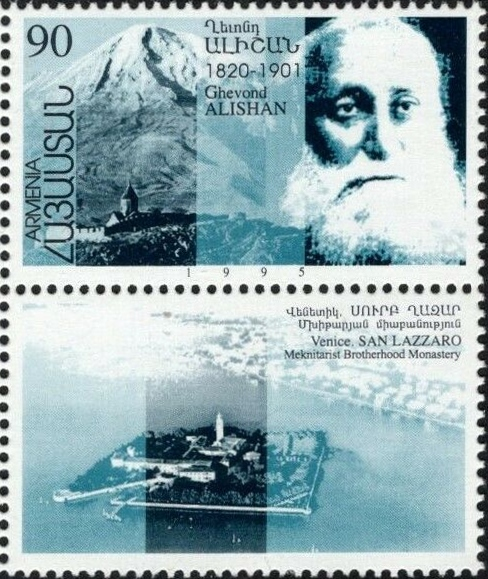 Stamp of Armenia